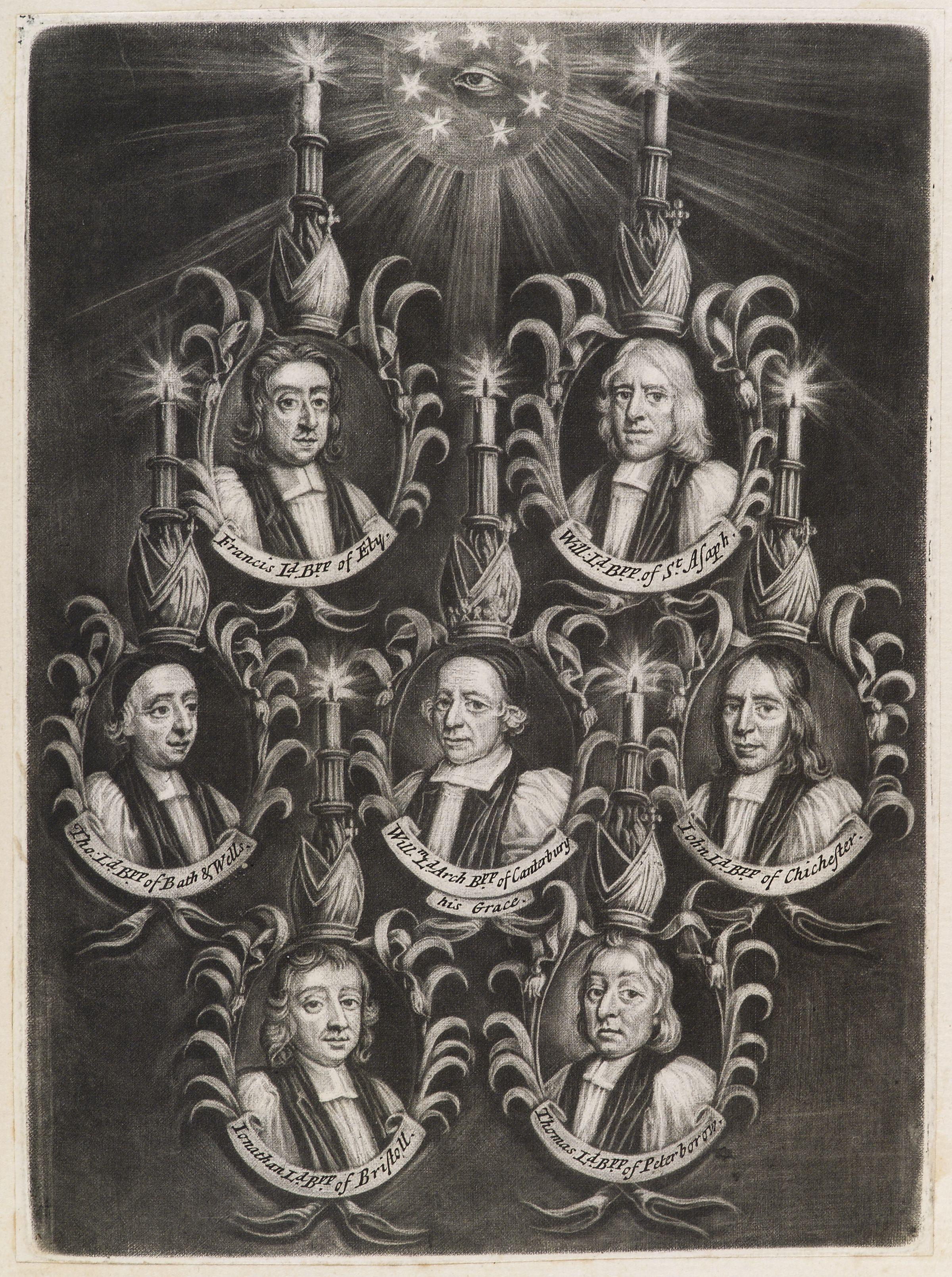 The Seven Bishops Committed to the Tower in 1688, by John Smith (died 1743). All images in this batch have been confirmed as author died before 1939 according to the official death date listed by the NPG.